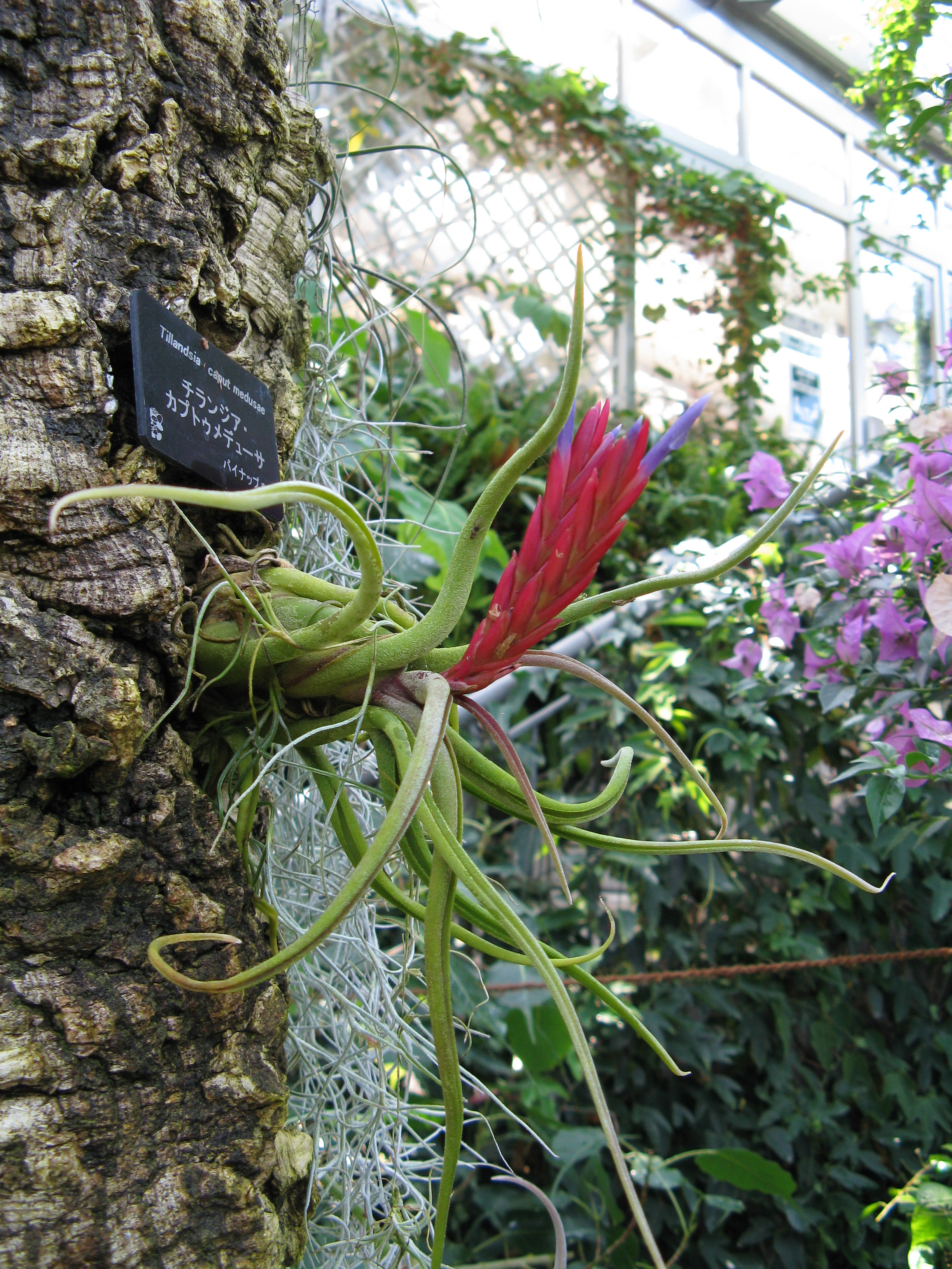 Scientific name Tillandsia caput-medusae